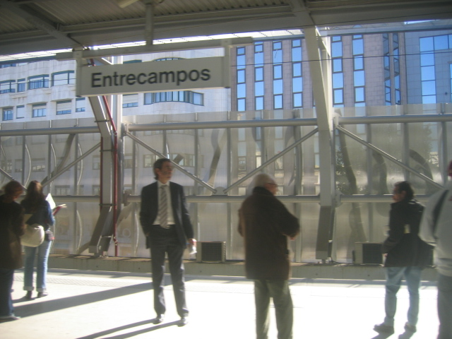 Platforms of Entrecampos train station in Lisbon, Portugal